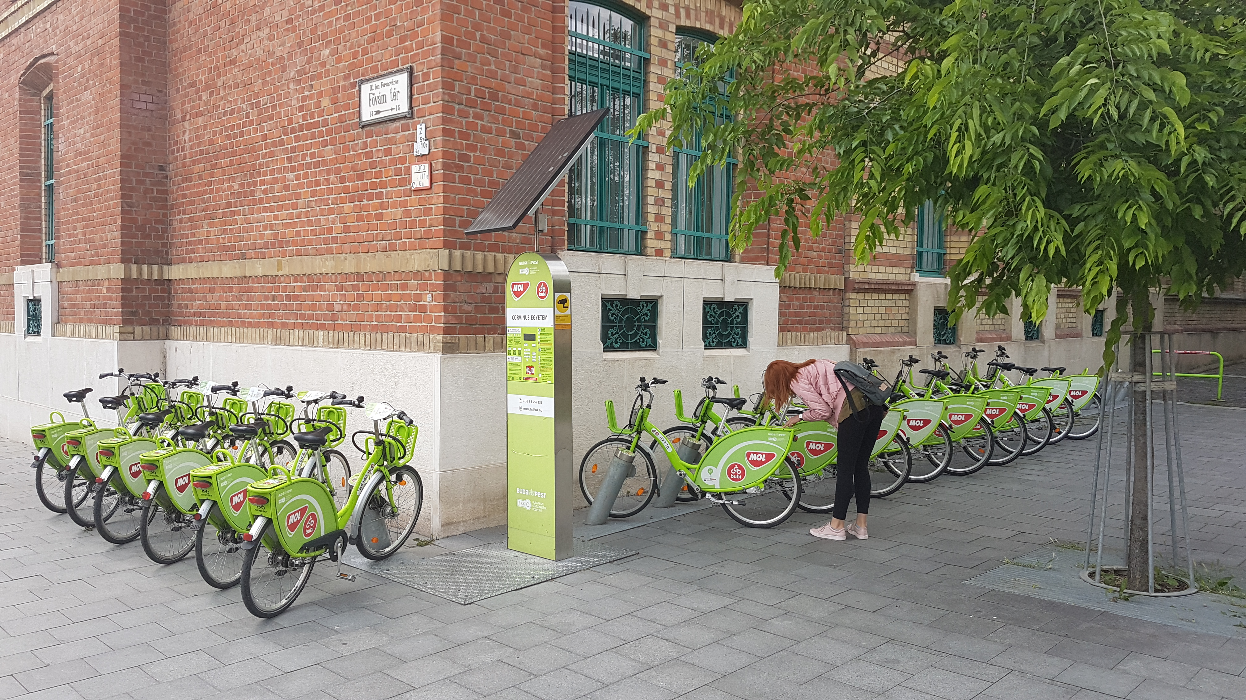 A station to rent a bike in Budapest.